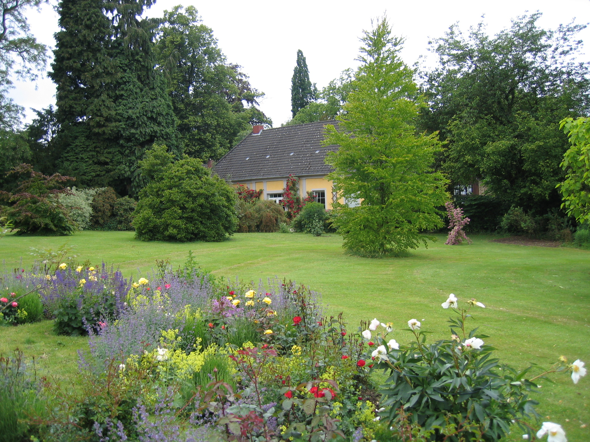 Park of Obernfelde Manor in Lübbecke, District of Minden-Lübbecke, North Rhine-Westphalia, Germany.